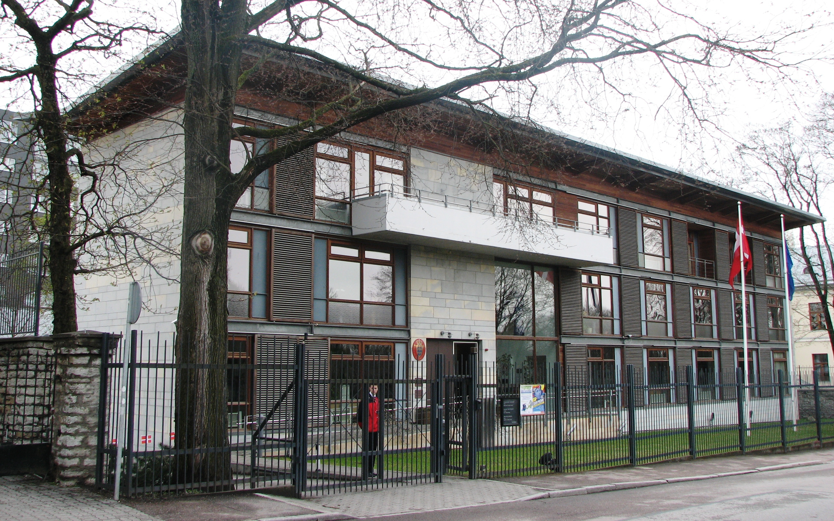 Danish embassy in Tallinn, 5 Wismari street